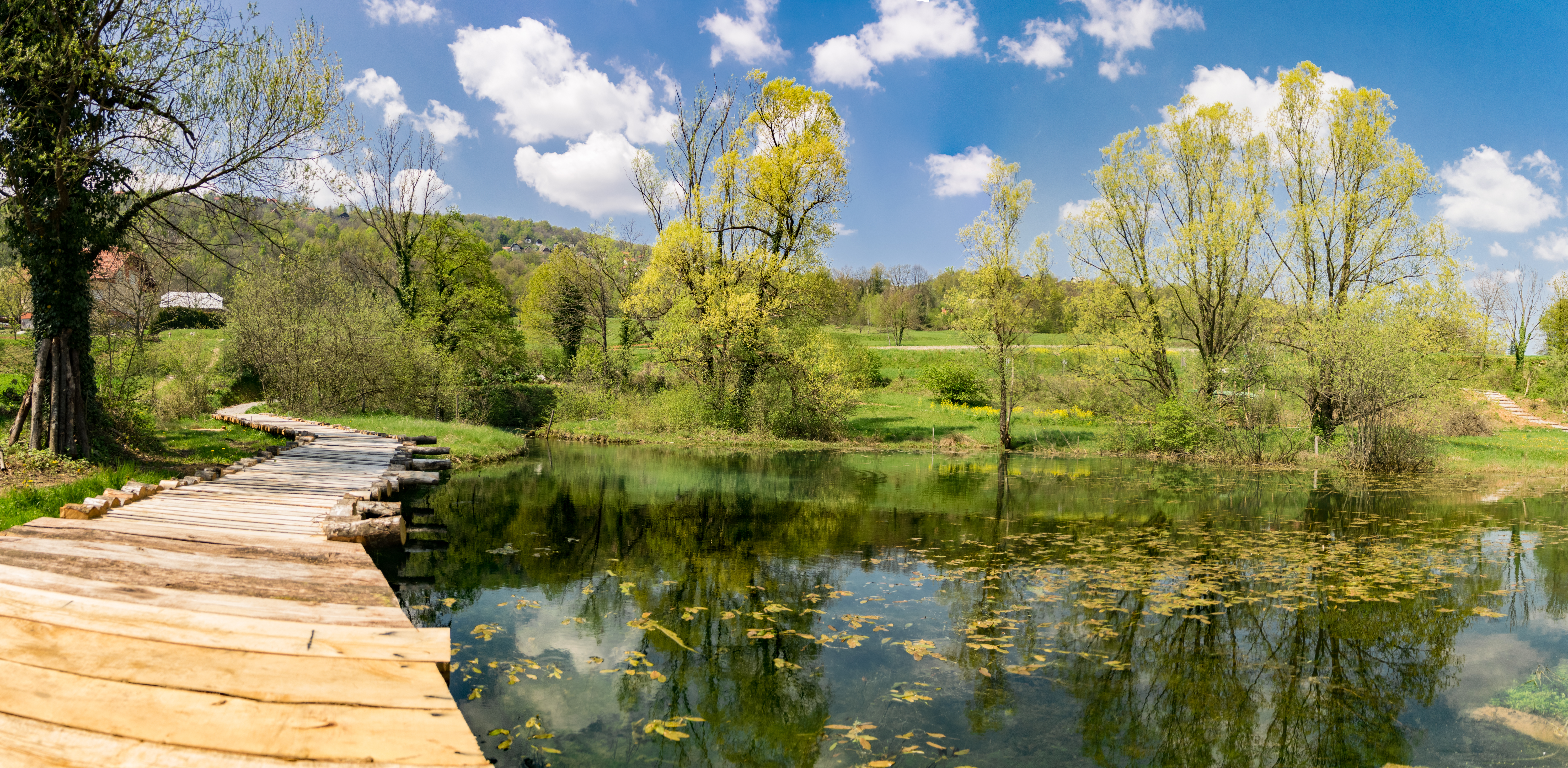 Jelševniščica spring in Bela krajina is the only place where the Black olm (Proteus anguinus parkelj) can be studied in Slovenia. The Black proteus is a subspecies to the Olm (Proteus anguinus).